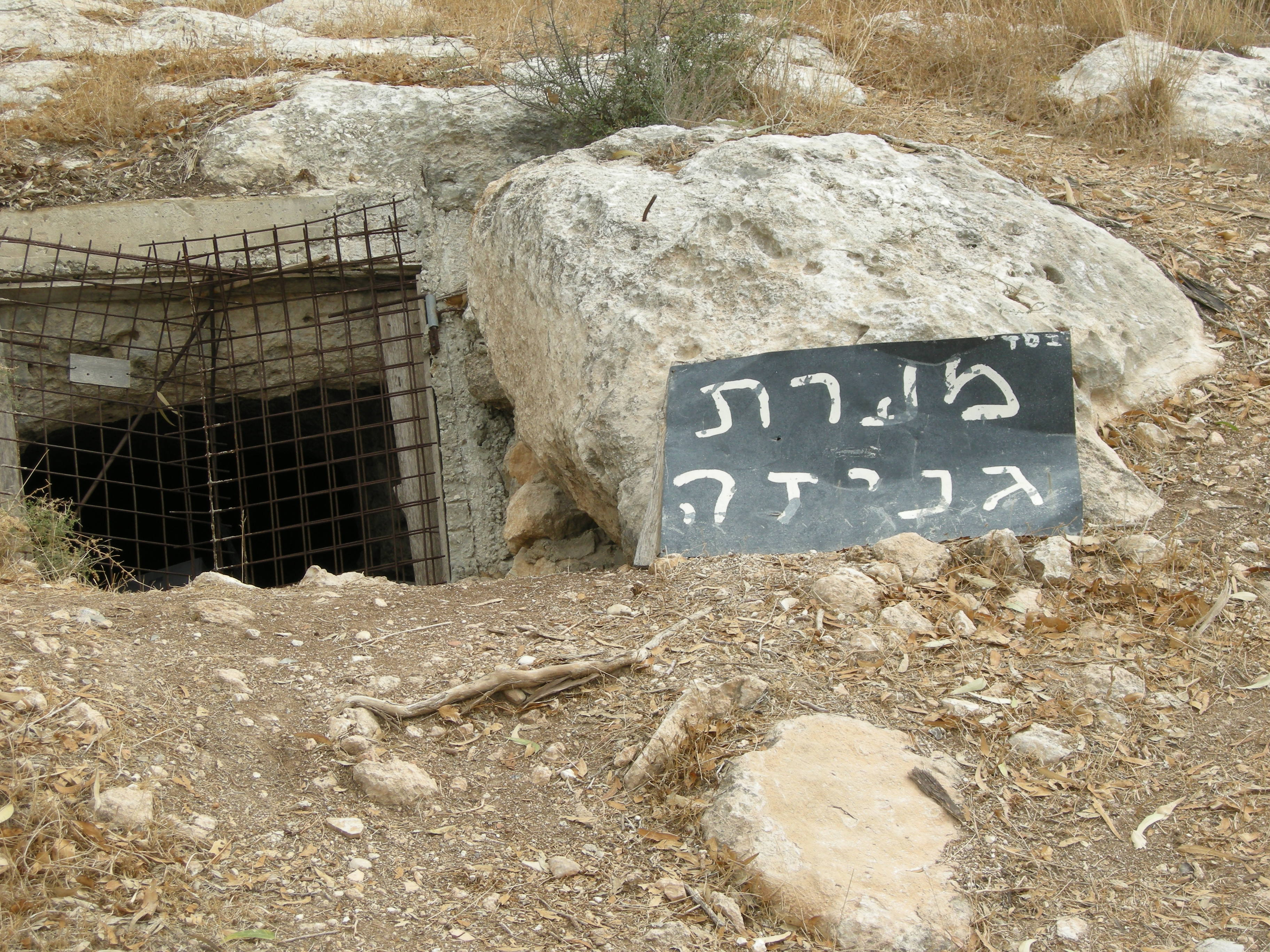 Israel National Trail - Modiin to Neve Shalom